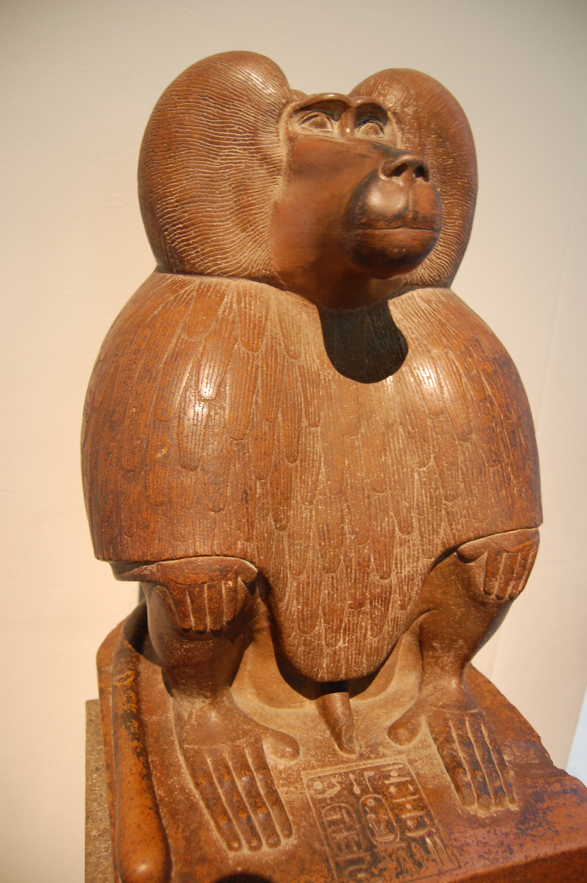 Quartzite sculpture of a baboon (c. 1400 BC), depicting the Egyptian god Thoth, in the British Museum (London). EA 38